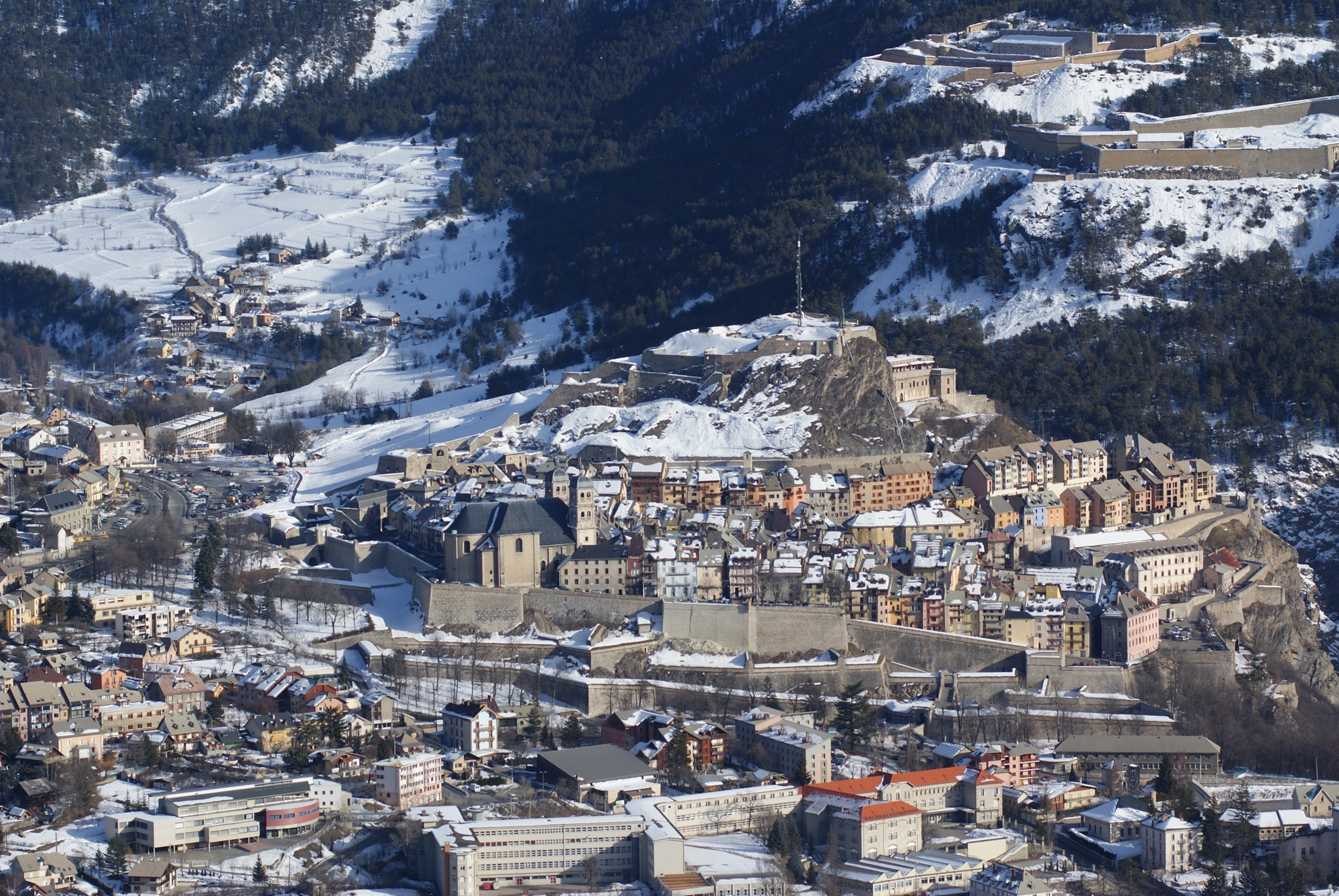 View of the fortified city of Briançon. The fortifications have been built by Vauban in the 17th century.